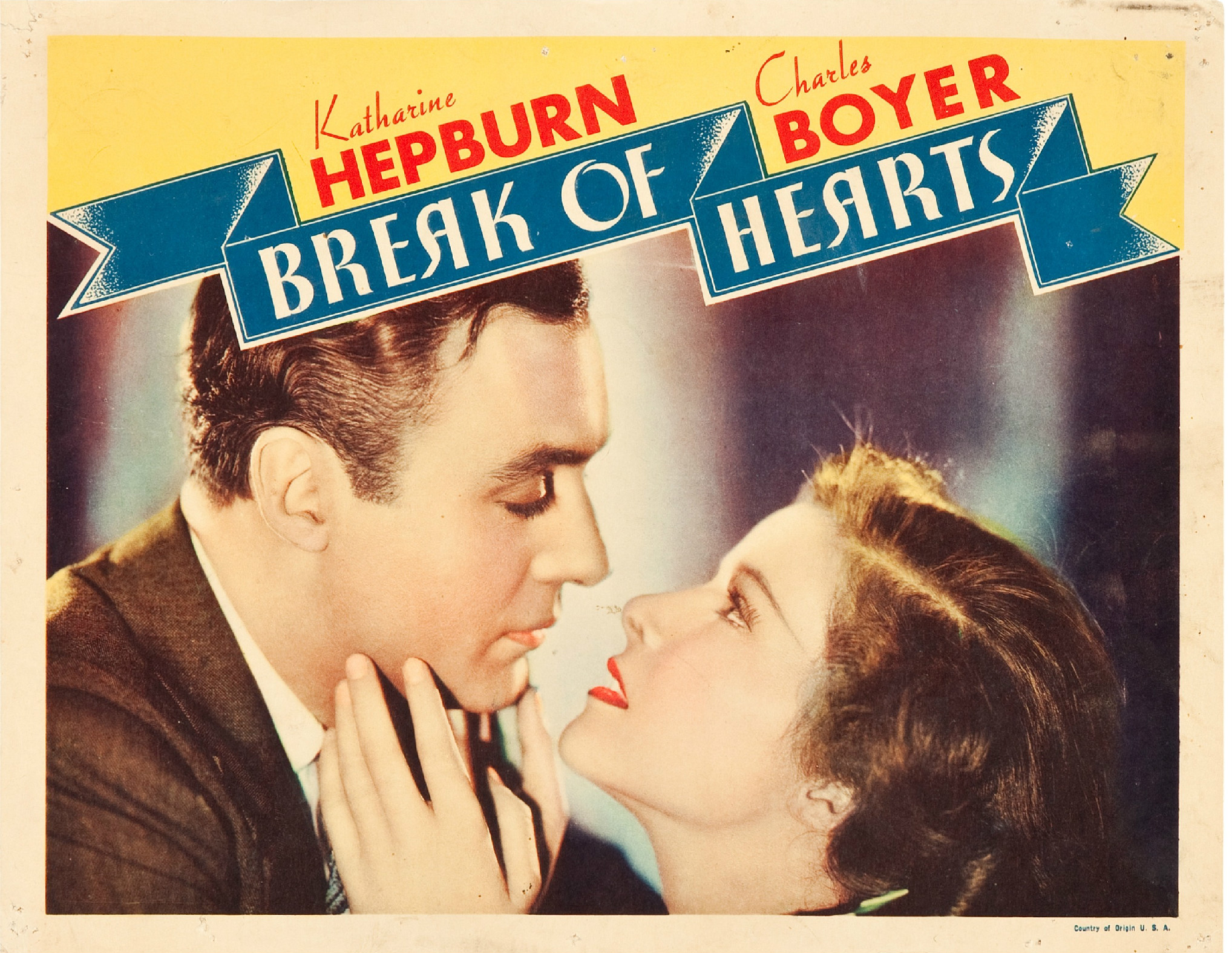 Lobby card for the American film Break of Hearts (1935). Charles Boyer & Katharine Hepburn